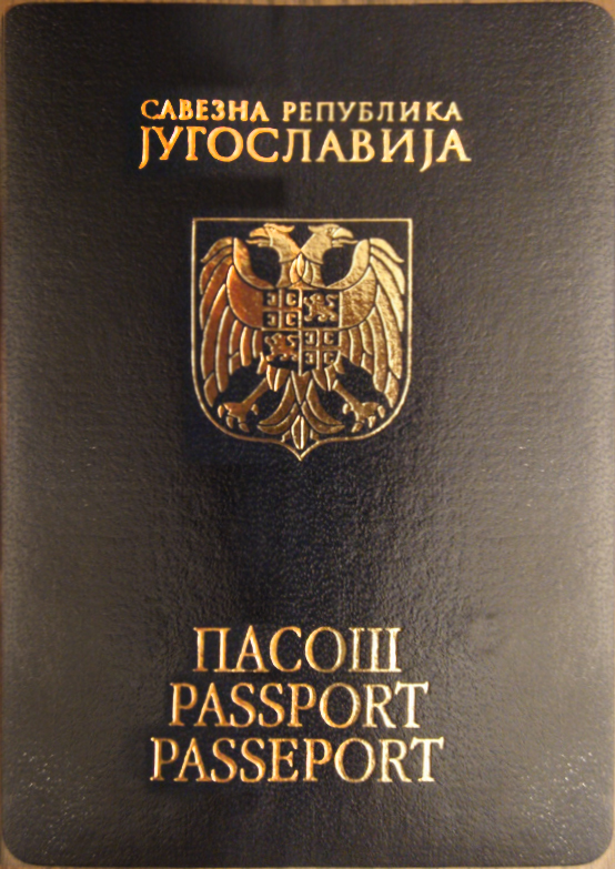 Front cover of passport issued by the Federal Republic of Yugoslavia, which is still in use by Serbia and Montenegro. Details are at Serbian passport.